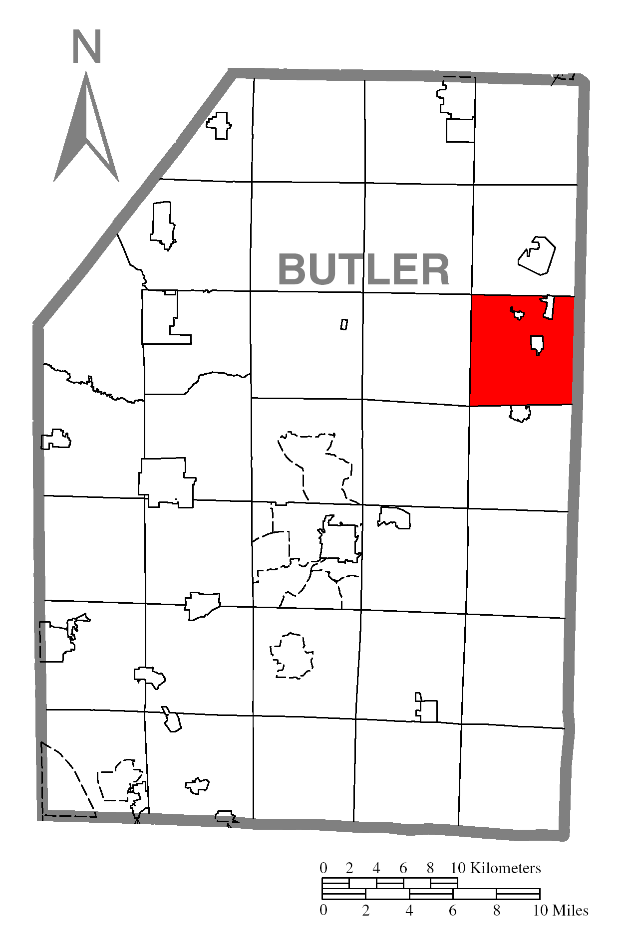 A map of Butler County showing Fairview Township, Pennsylvania (alternate) highlighted on the map.